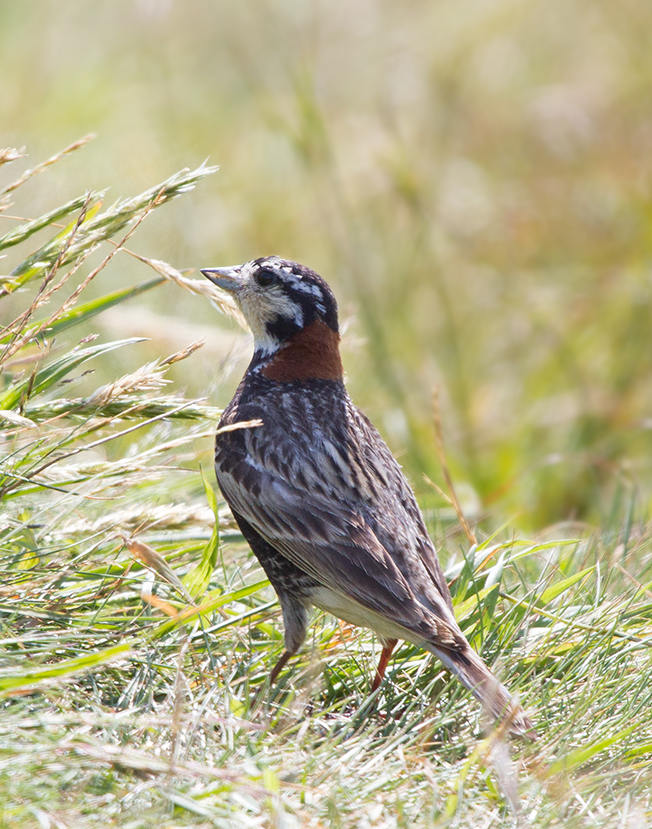 A Chestnut-Collared Longspur in Biddeford Pool, Maine. This individual bird was present for several days in June of 2012. There was only one other state record for the species, in 1886.